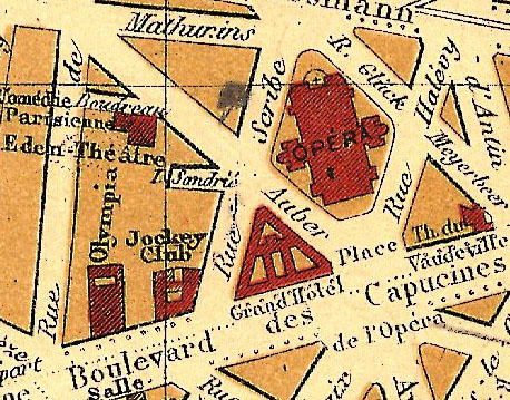 Detail from an 1893 map of Paris (scale 1:16,000), showing the location of the Éden-Théâtre at 7 rue Boudreau, near the Paris opera house, the Palais Garnier